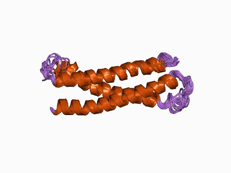 Cartoon representation of the molecular structure of protein registered with 1br0 code.